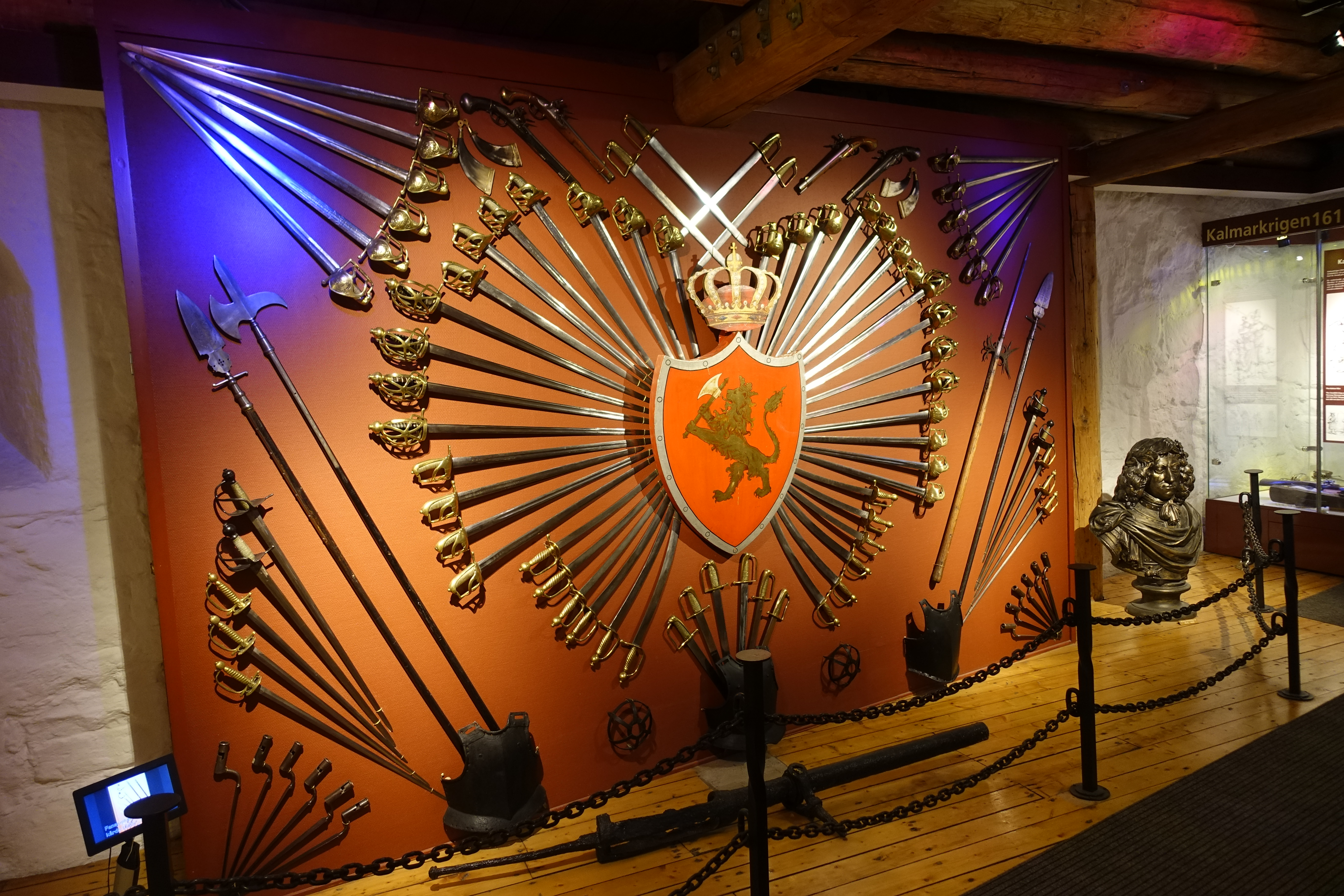 Old style handpainted coat of arms of Norway decorated with a collection of Norwegian sabres, swords, weapons, etc. ca. 1600–1900. Photo from the exhibitions at the Rustkammeret Norwegian Army Museum in Erkebispegården, Trondheim, Norway 2019-03-20.